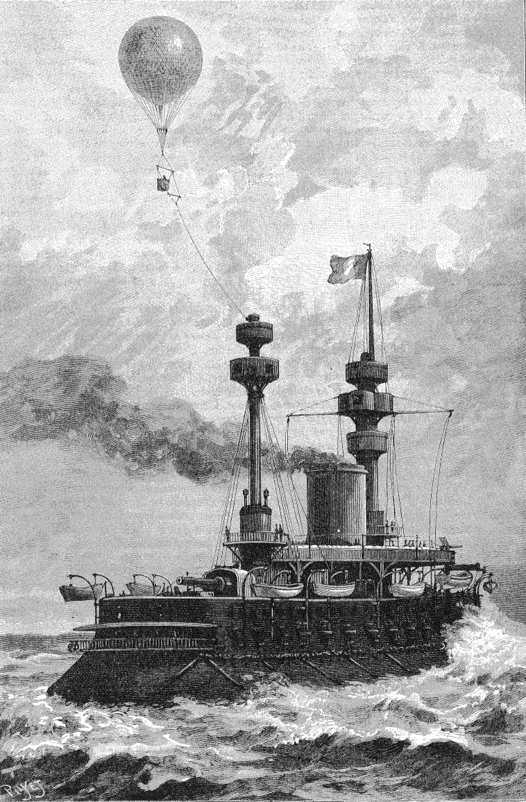 French battleship Formidable testing a captive balloon in 1890.